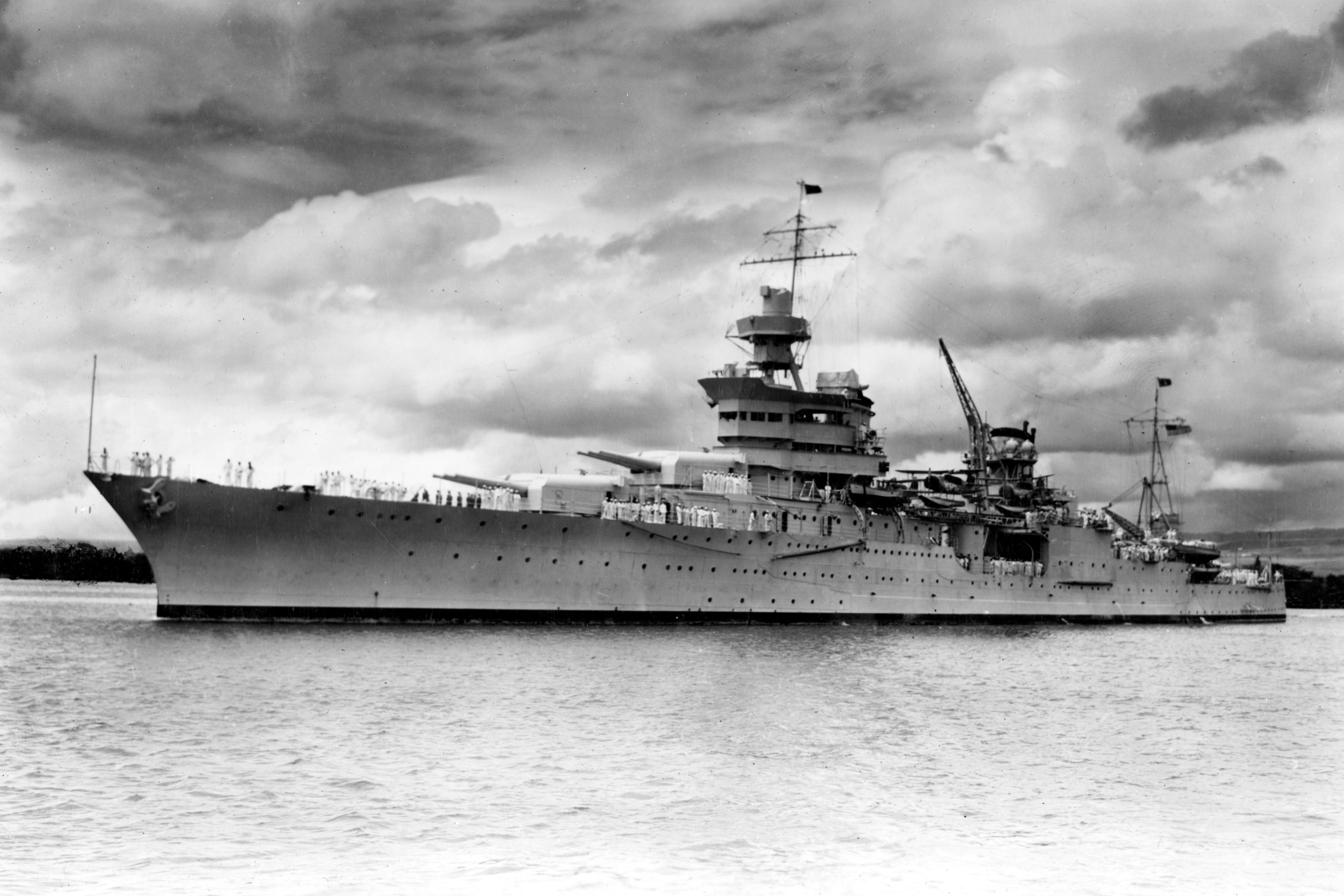 The U.S. Navy heavy cruiser USS Indianapolis (CA-35) at Pearl Harbor, Hawaii, circa in 1937.